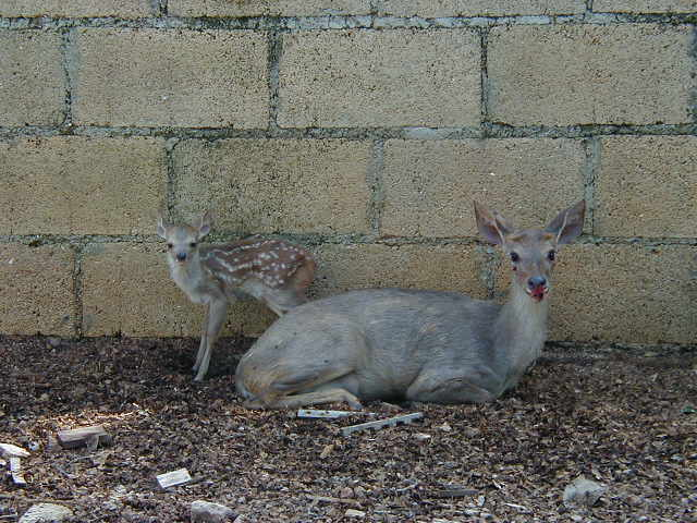 Yucatan Brown brocket and Calf. Mazama Pandora